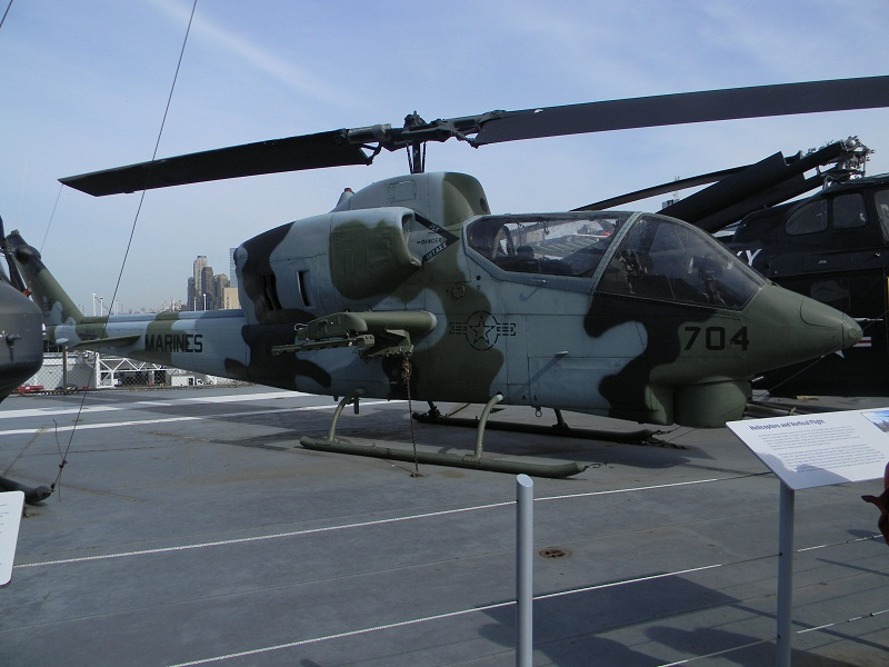 AH-1 Cobra at the Intrepid Sea-Air-Space Museum, New York